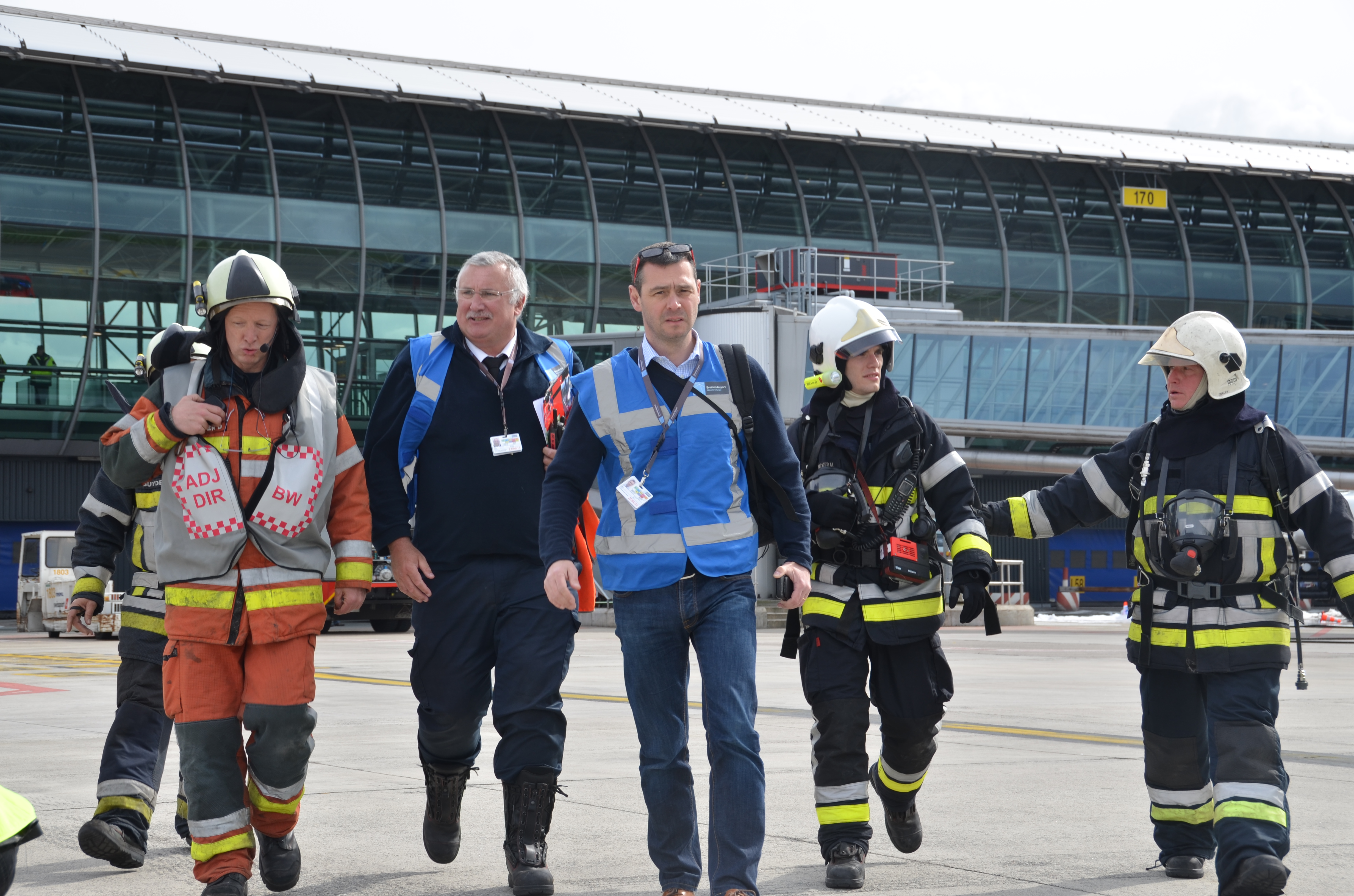 Saturday, 27th of April, we organized a large-scale emergency drill at Brussels Airport to test and evaluate the preparedness of our airport emergency services in the event of an incident. Read more on